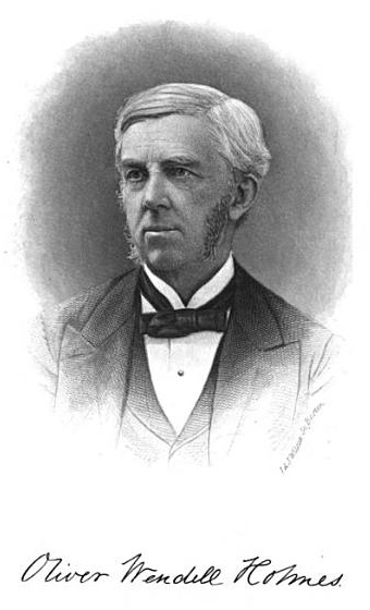 Image of Dr. Oliver Wendell Holmes, Sr. with replicated signature, from Proceedings at the Dinner Given by the Medical Profession of the City of New York April 12, 1883 to Oliver Wendell Holmes by Wesley Manning Carpenter, published by G. P. Putnam's sons, 1883. 59 pages